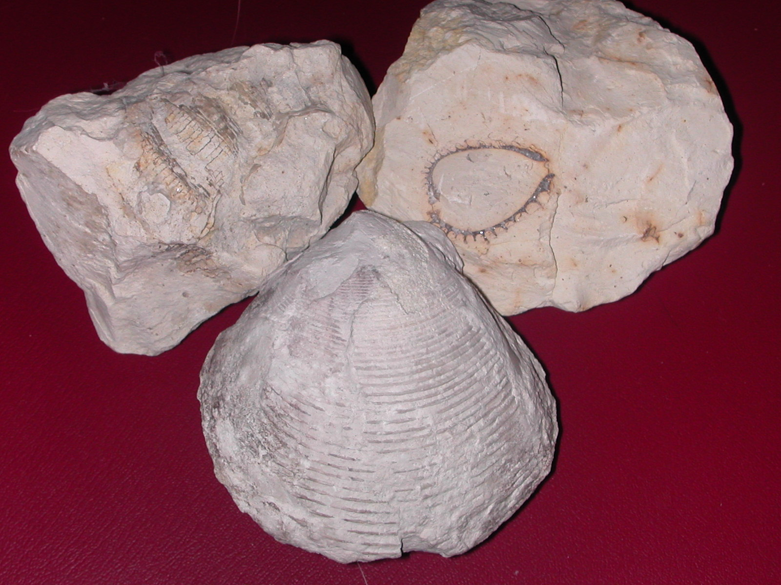 Coral and bivalves of the Comanche Peak Limestone, collected near Waco, Texas.